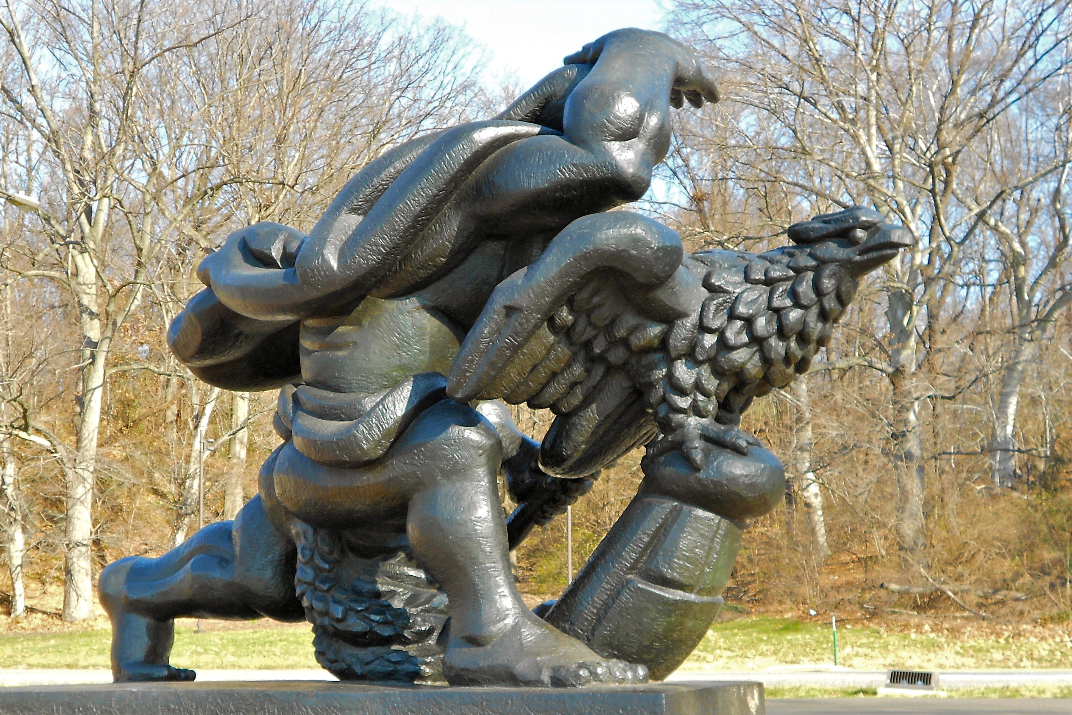 Sculpture "The Spirit of Enterprise" by Jacques Lipchitz in Fairmount Park, Philadelphia. Dedicated 1960. Published without copyright before 1978, therefore in the public domain.